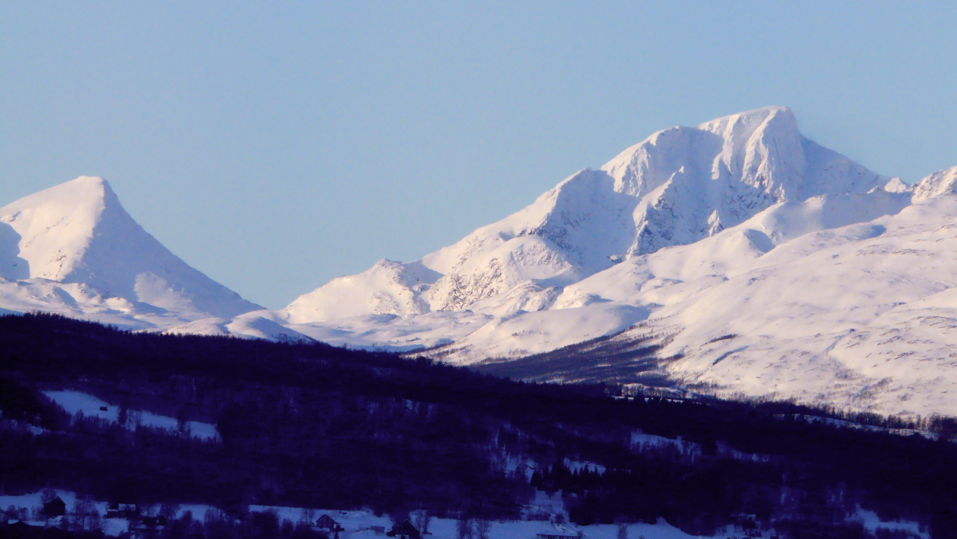 1,145 and 1,378 metres high summits of Blåtindan in Målselv commune as seen from near Storsteinnes in Balsfjord in 2009 February.